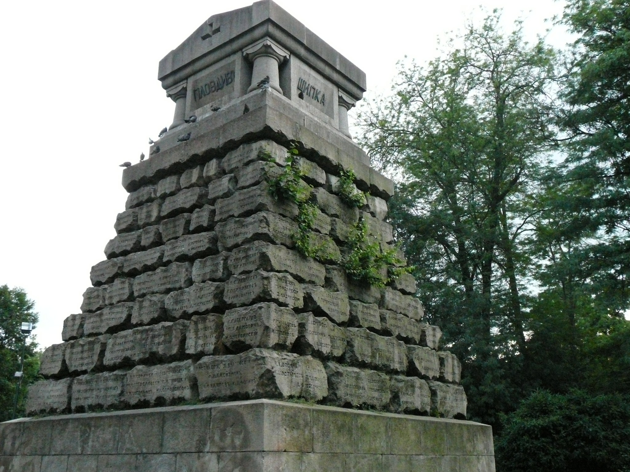 Doctors garden in Sofia